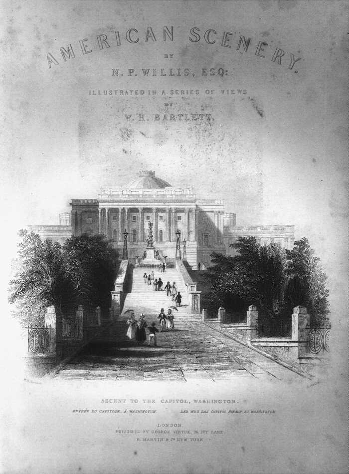 Frontispiece of American Scenery by American author Nathaniel Parker Willis, illustrated by W. H. Bartlett.